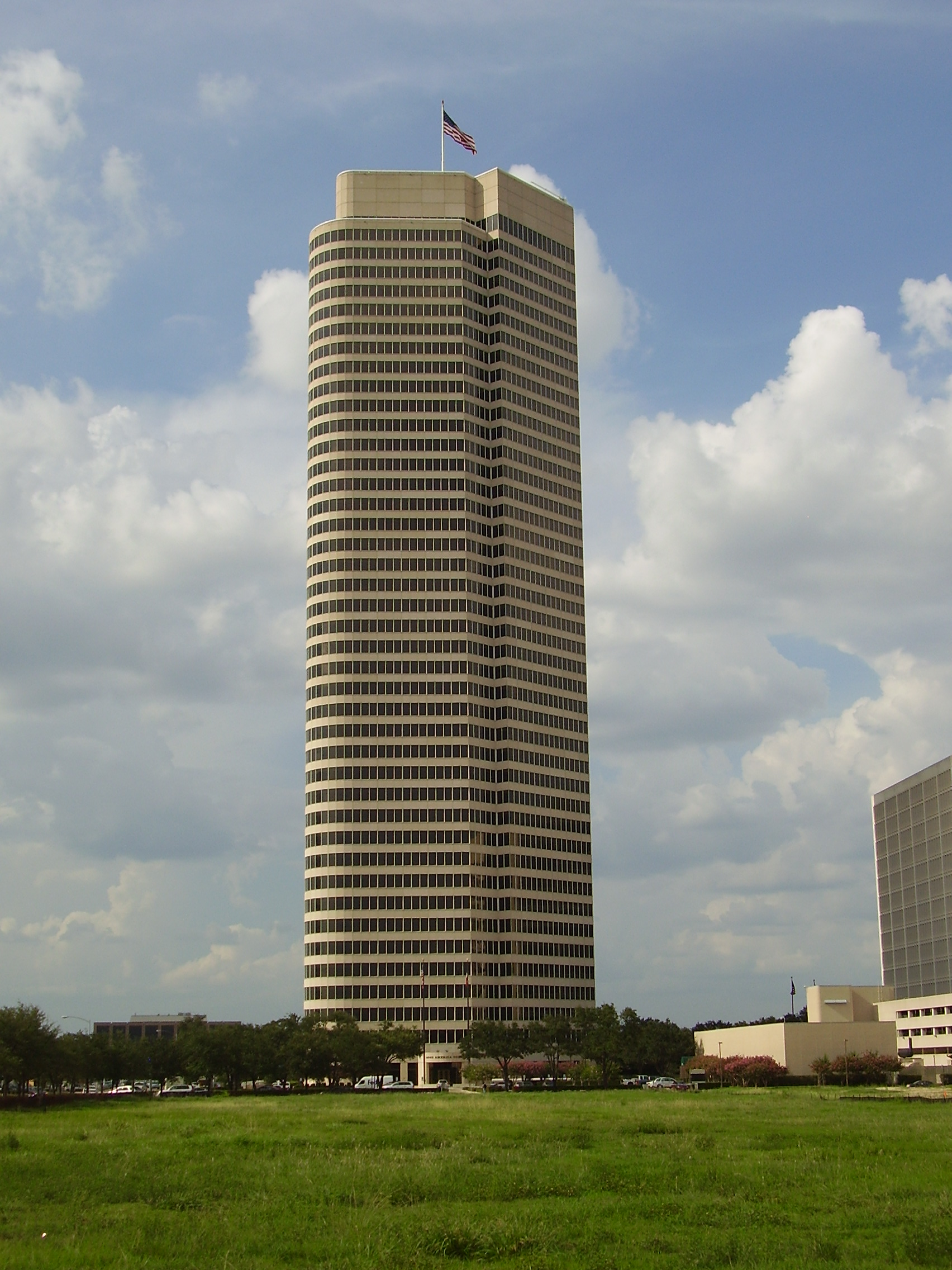 America Tower in the American General Center in Houston, houses the headquarters of Baker Hughes - Formerly housed the headquarters of Continental Airlines